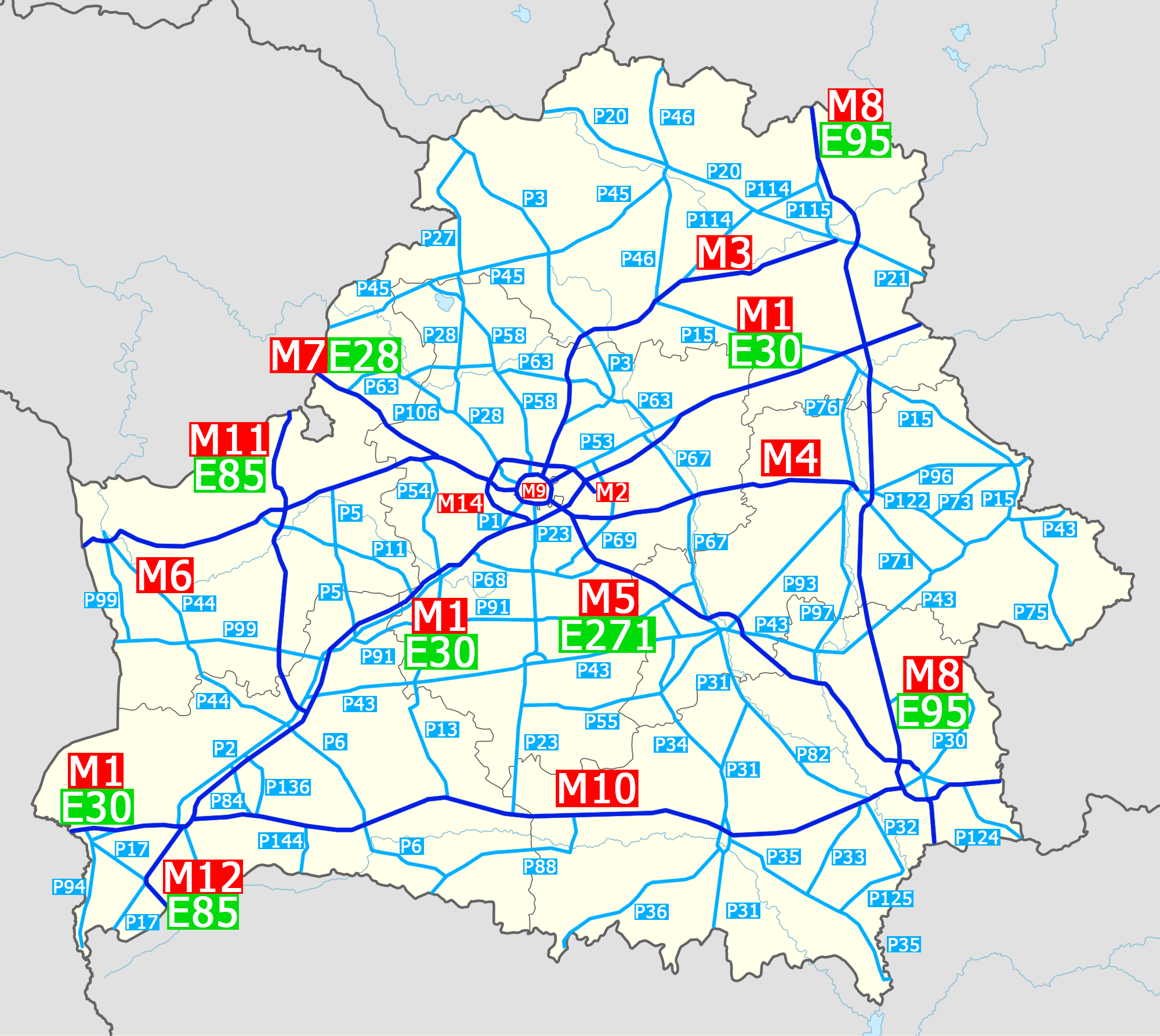 Map of automobile roads in Belarus. M-class roads (International) are 100% depicted, among P-class roads (Republican) only major are depicted